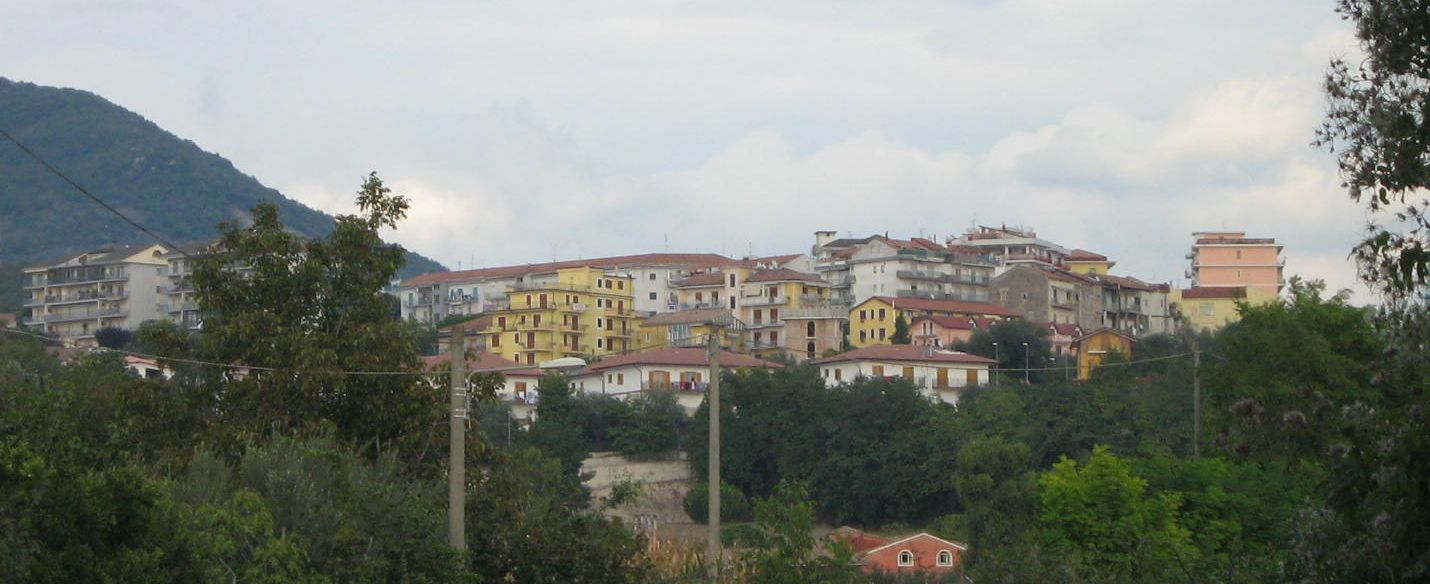 Panoramic view of Faiano from the road between Pontecagnano and Baroncino